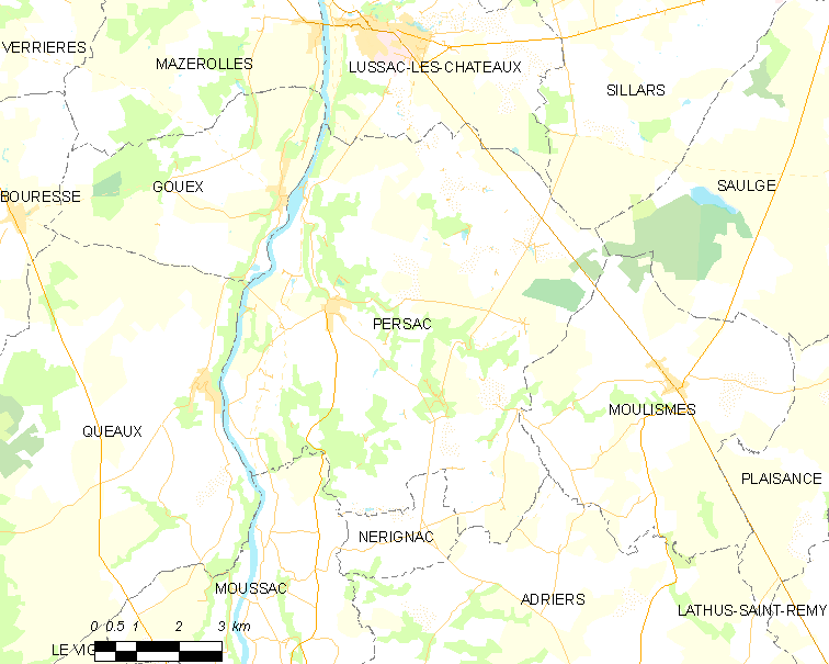 Map of French municipality Persac